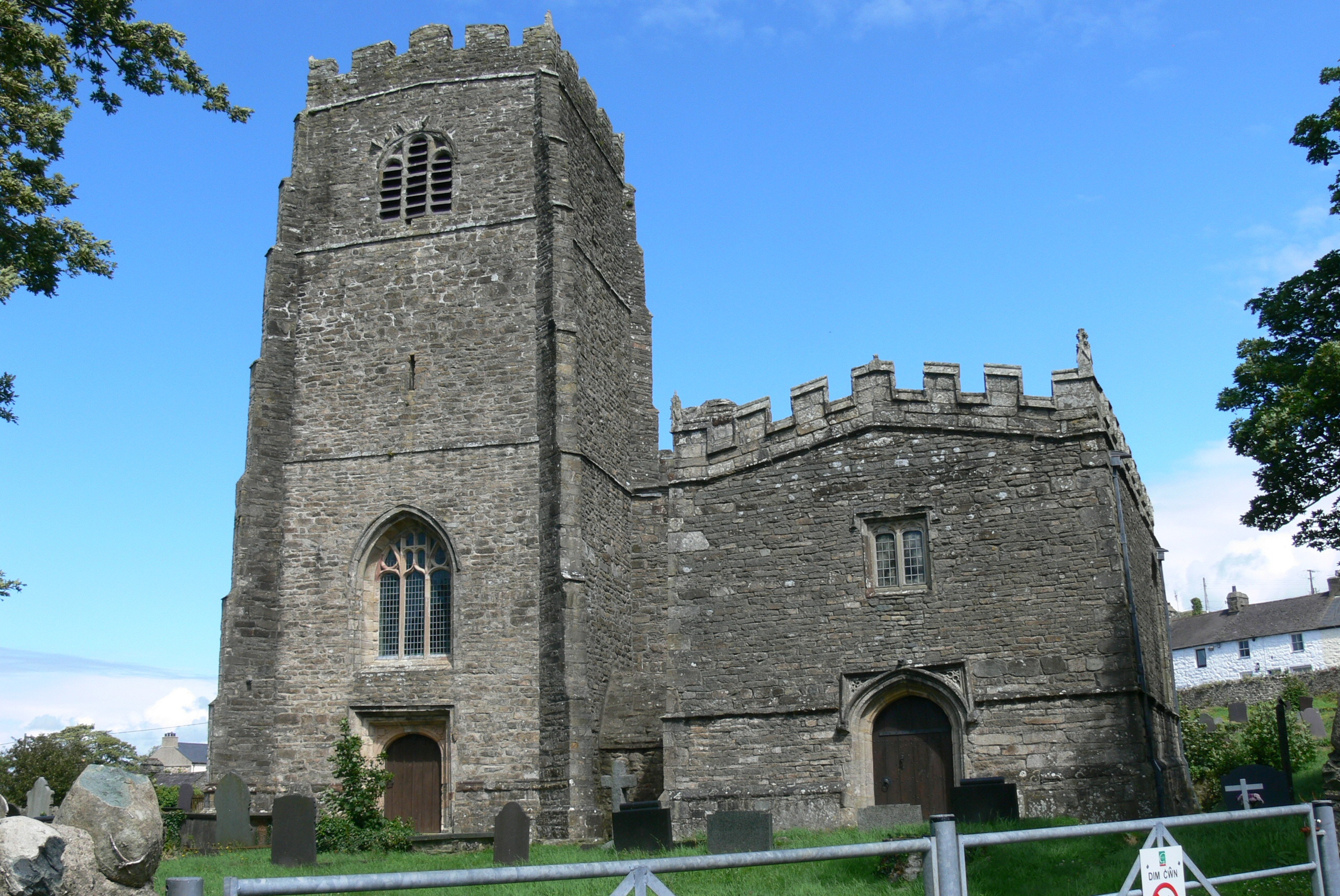 Clynnog Fawr ( Wales ). St Beuno church: Tower and facade.